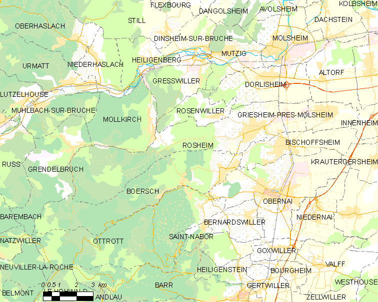 Map of French municipality